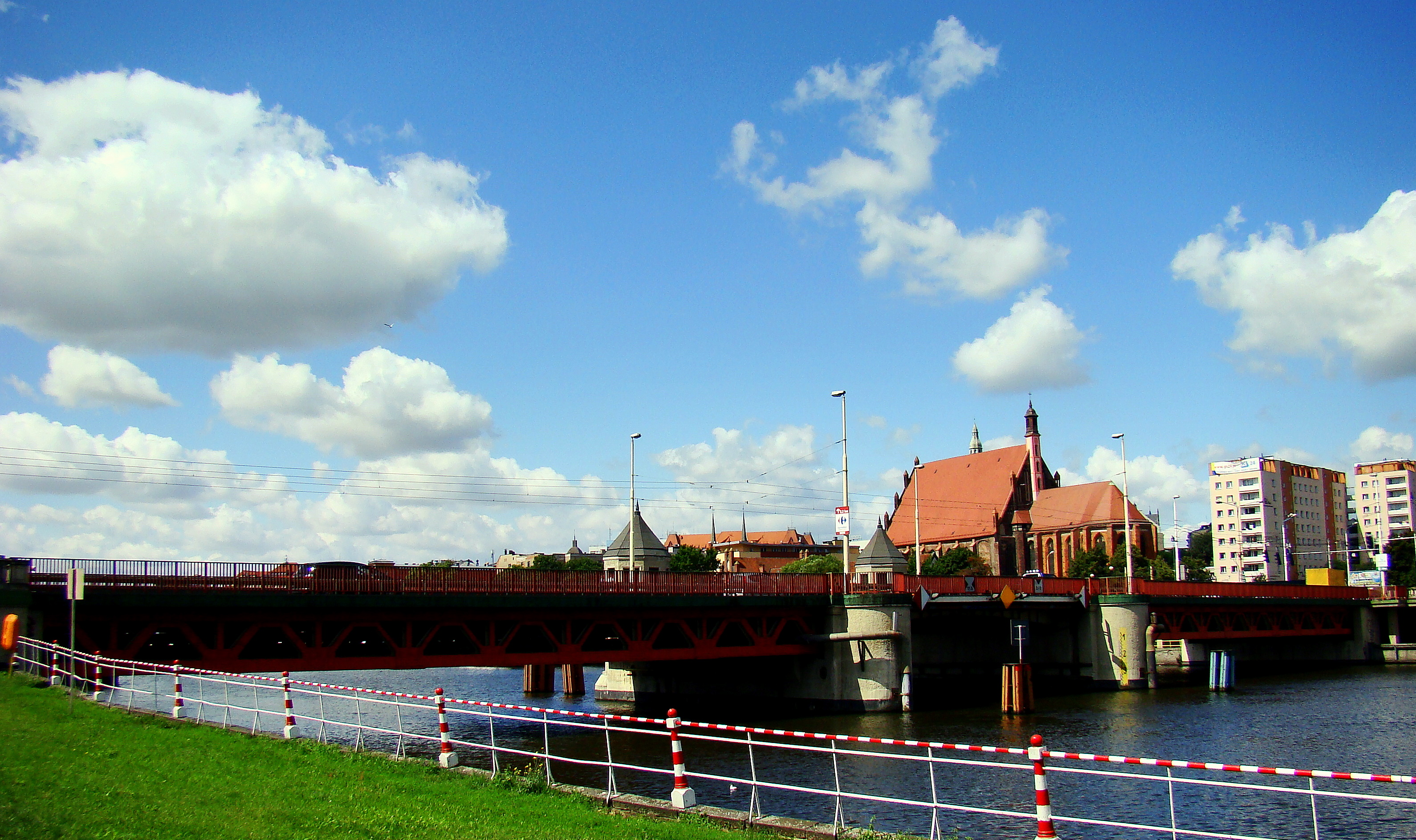 Dlugi Bridge, Szczecin, Poland